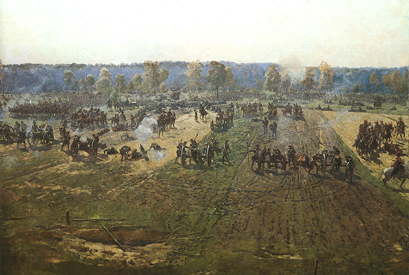 Bagration flèches, Detail of his panoramic painting The Borodino Battle (1912)